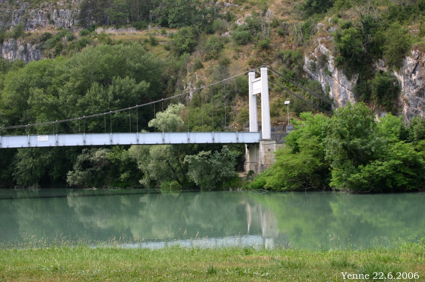 Yenne: Bridge over the Rhône.